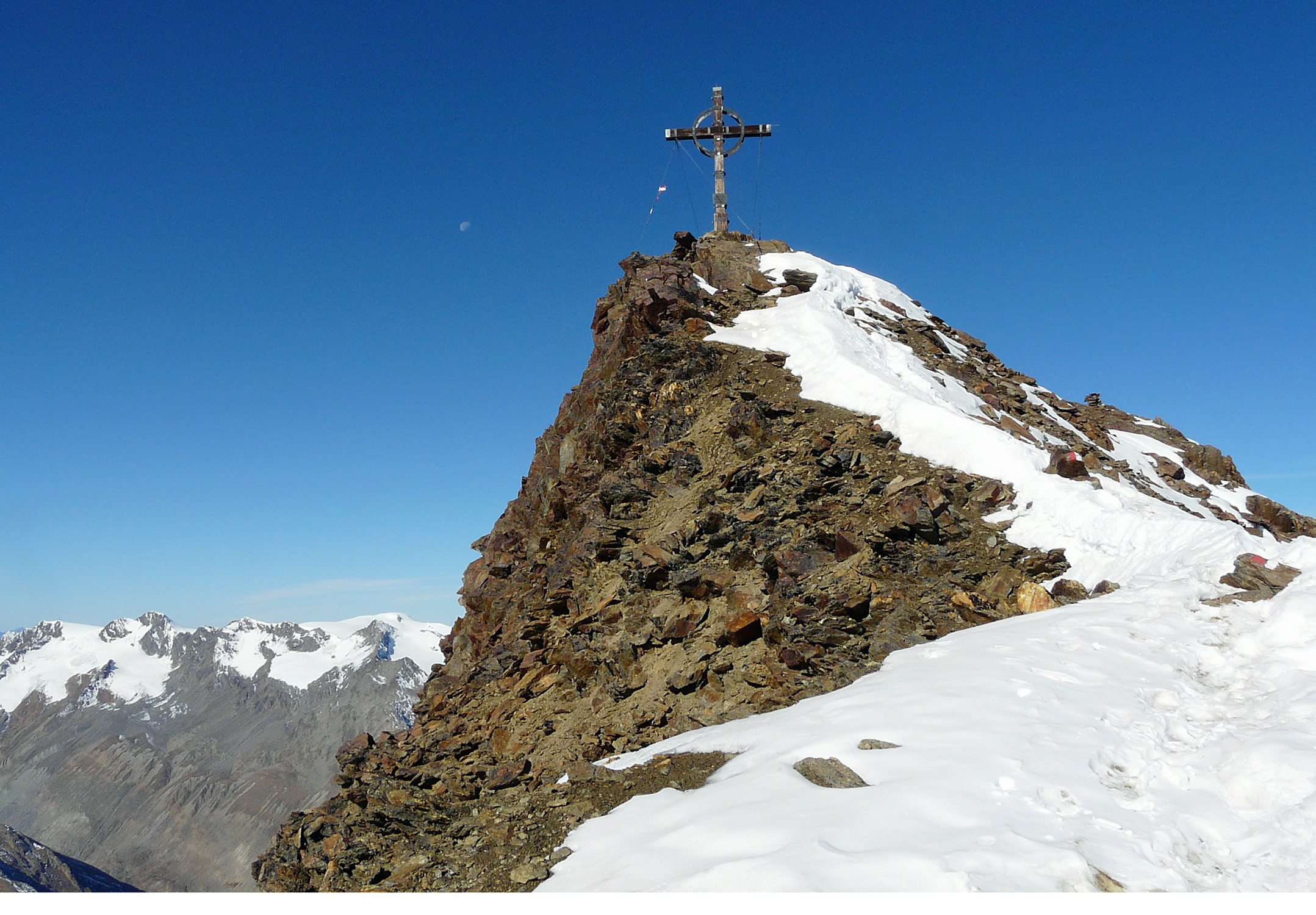 Summit of the Kreuzspitze 3457m in the Ötztal alps